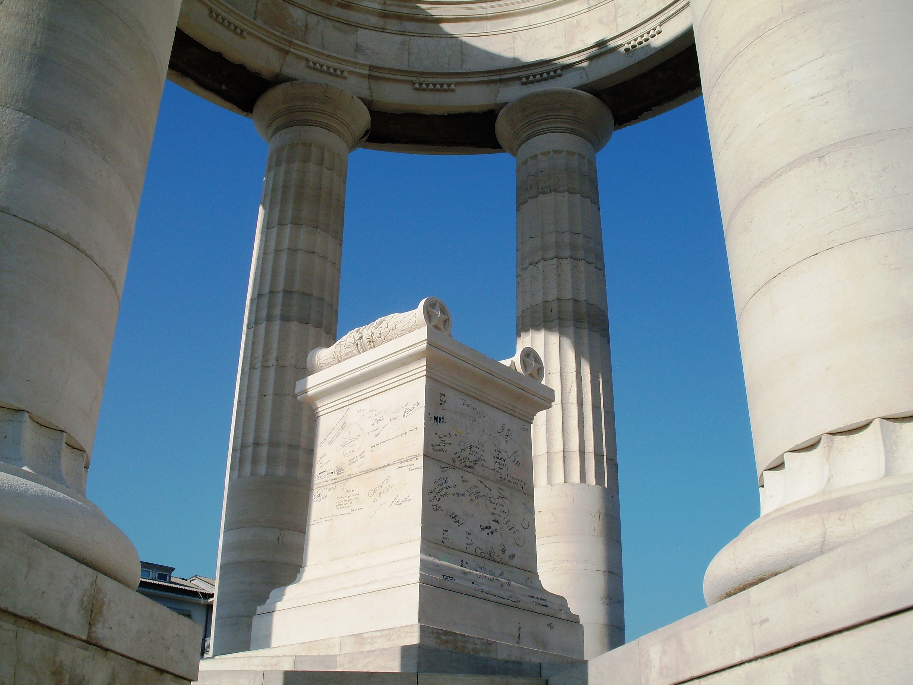 Italy Ancona Passetto - Monument soldiers dead in 1st world war - ara